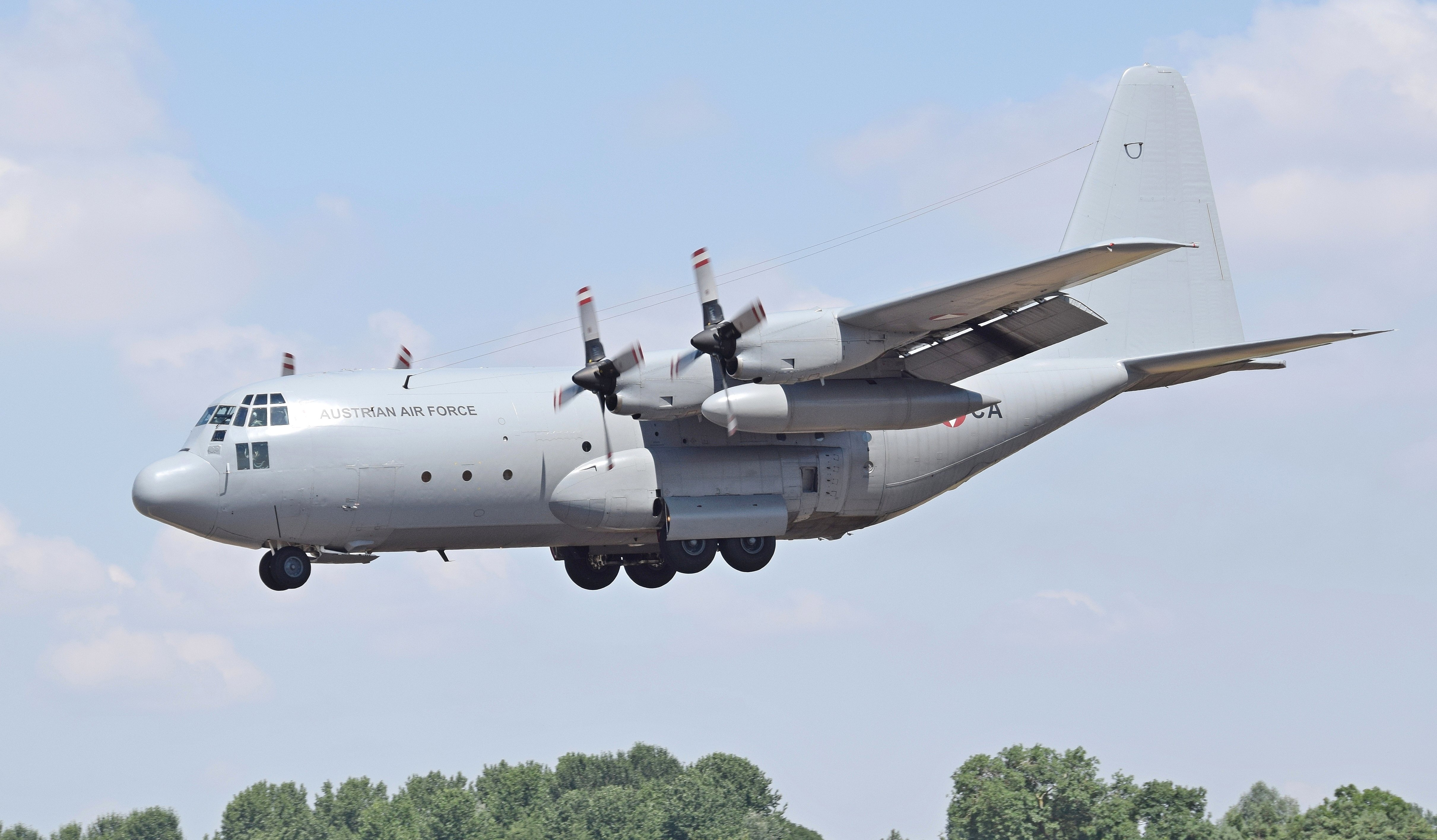 Lockheed C-130K Hercules (code 8T-CA) of the Austrian Air Force arrives at the 2018 Royal International Air Tattoo, RAF Fairford, England.